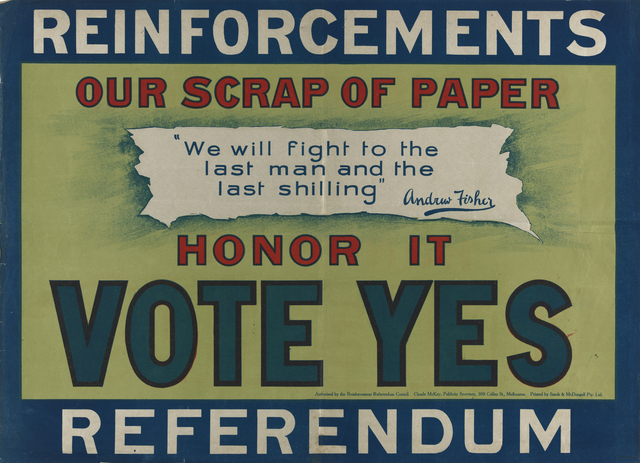 This poster was created in support of the second conscription referendum put to the Australian people on 20 December 1917 by Prime Minister Hughes. It asked citizens: Are you in favour of the proposal of the Commonwealth Government for reinforcing the Commonwealth Forces overseas?' The referendum was defeated with 1,015,159 in favour and 1,181,747 against. Significantly the poster incorporates a quote by former Prime Minister Andrew Fisher. At the time Fisher was serving as Australia’s High Commissioner in London and opposed Hughes on the issue of conscription.